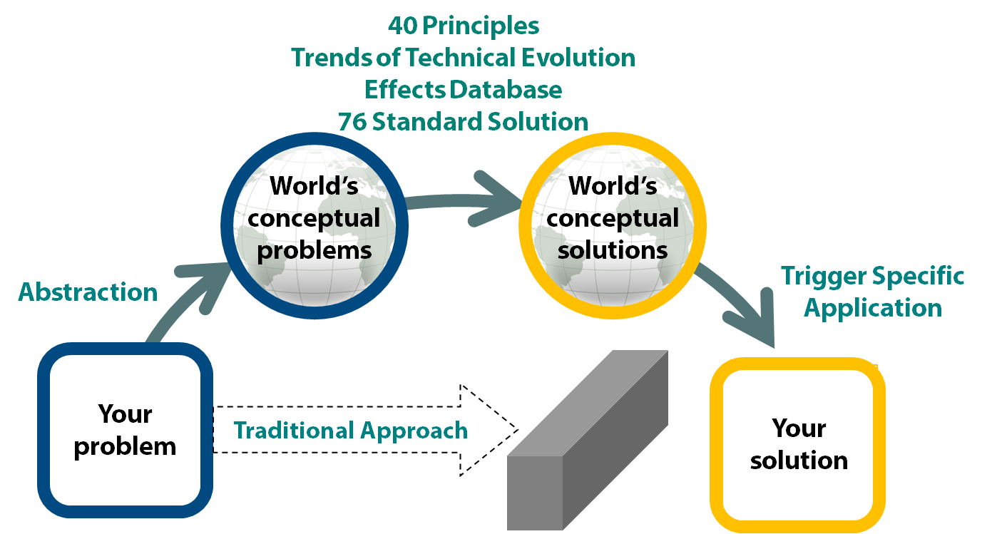 Prism of TRIZ problem solving solutions by Oxford Creativity